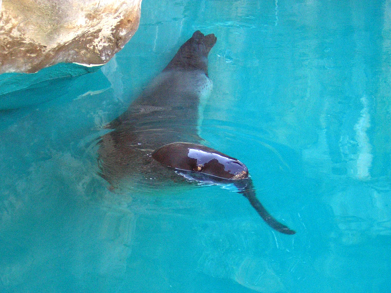 A leopard seal (Hydrurga leptonyx) at Taronga Zoo, Sydney. Photo by me.